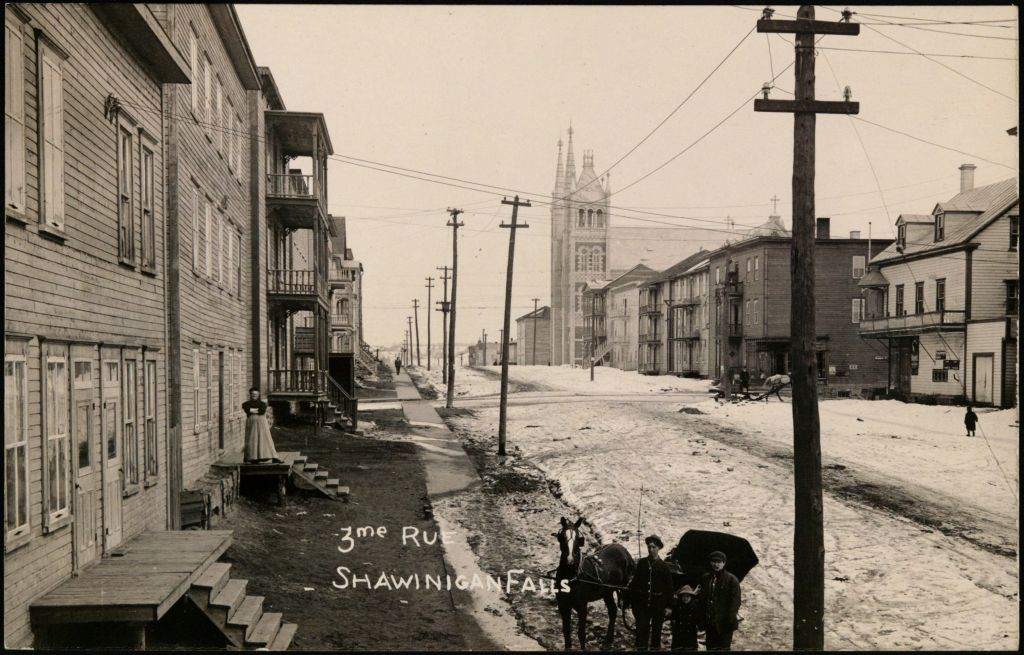 3e rue, Shawinigan Falls, carte postale